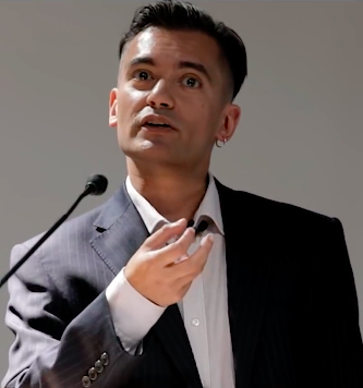 David Wearing speaking at SOAS in 2018